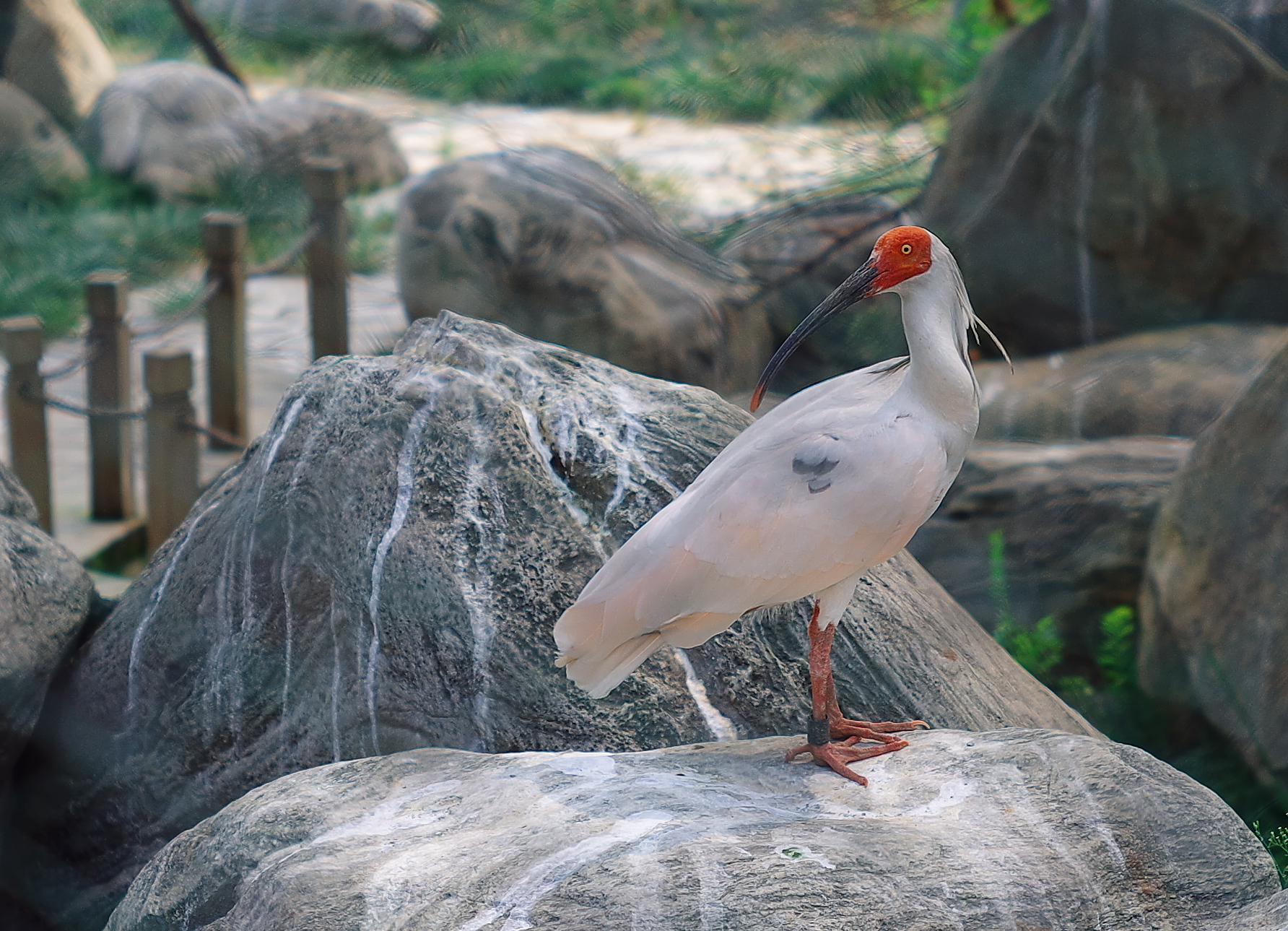 Zhuhuan(Nipponia nippon), Xi'an